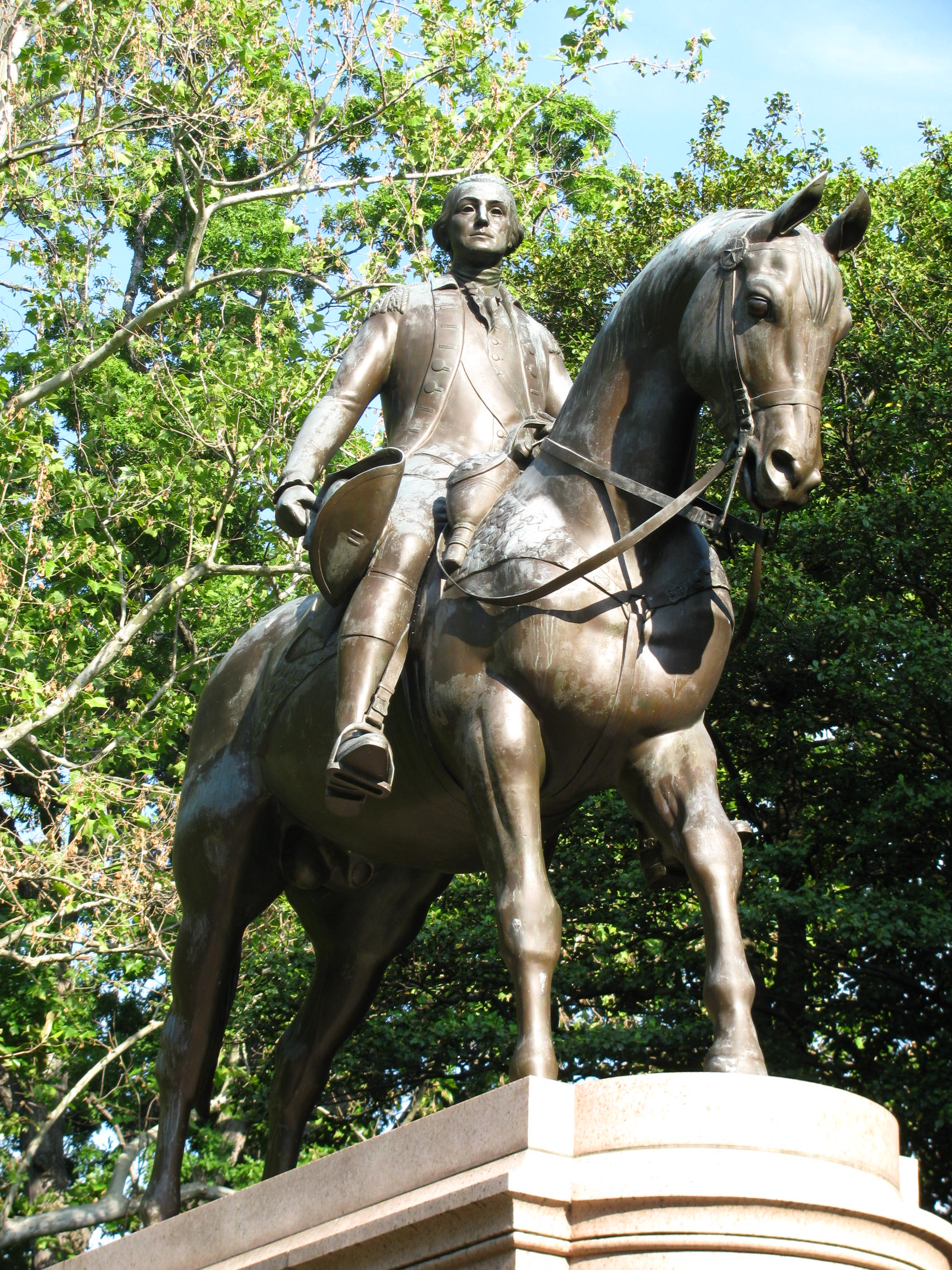 George Washington on Horseback, (sculpture). Artist: Haseltine, Herbert, 1877-1962, sculptor. Charles de Coene Founder, founder.